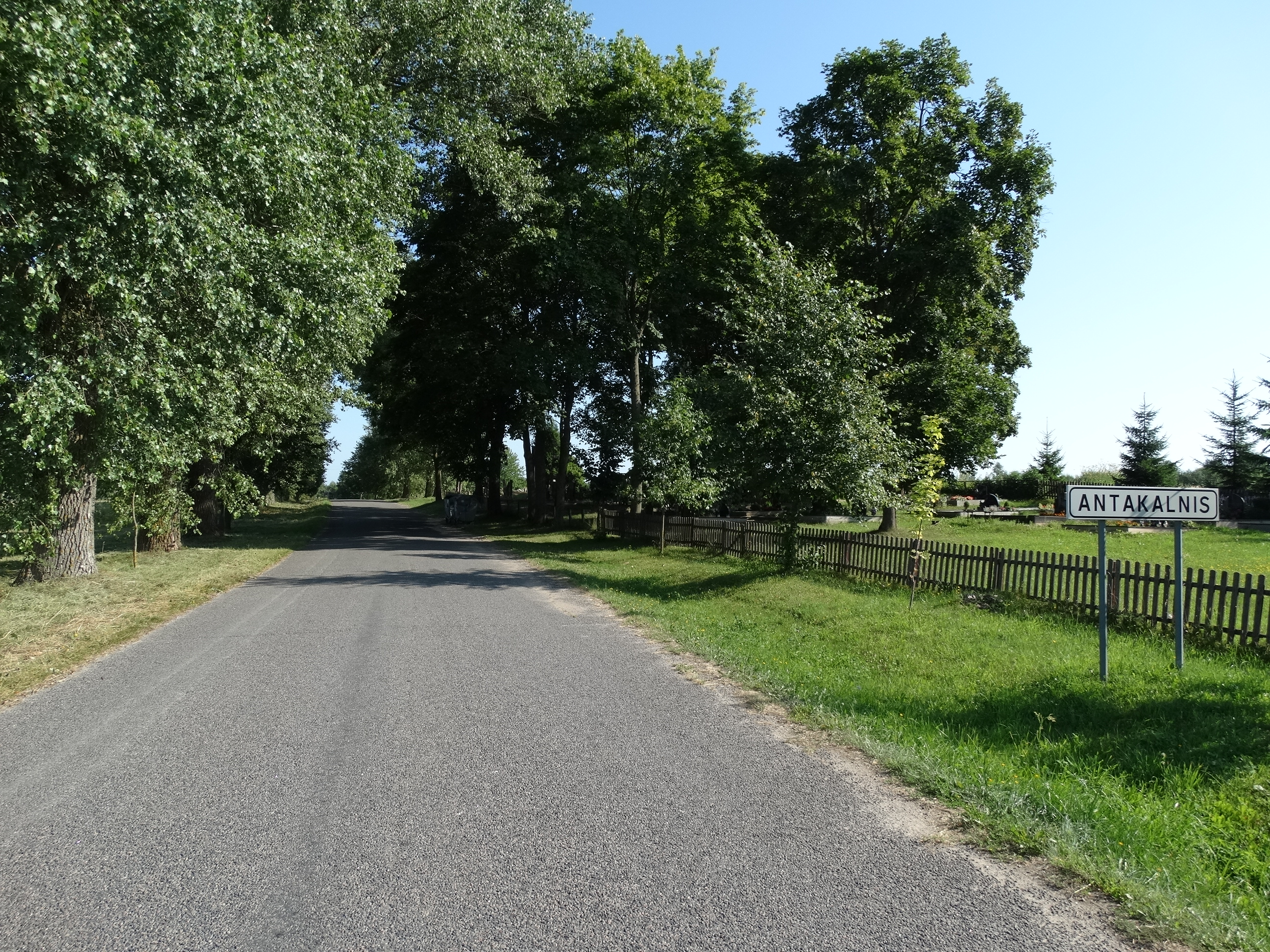 Antakalnis (Pabaiskas), Ukmergė district, Lithuania